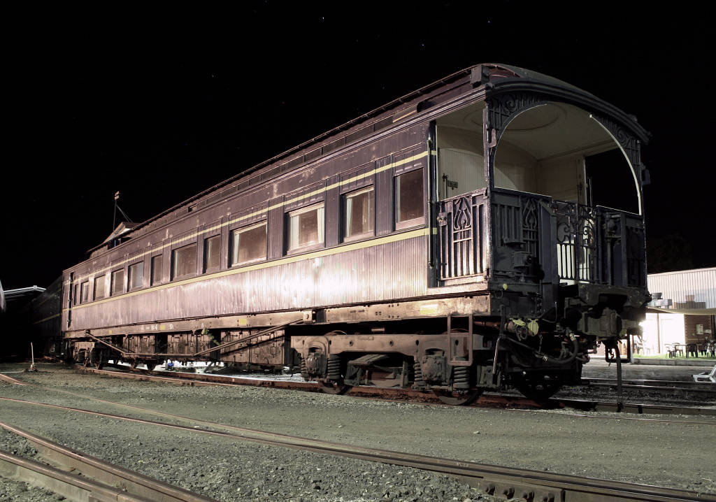 State Car 4, as used on Victorian Railways Royal Trains, in the traditional blue and gold livery. In the custody of the Seymour Railway Heritage Centre.